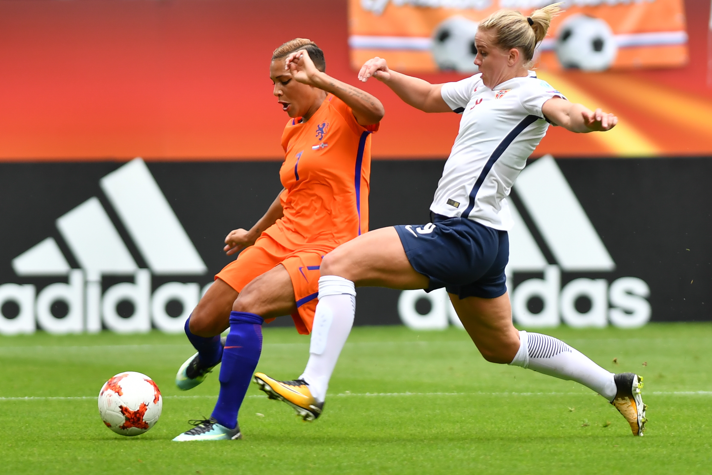 16/7/2017, Utrecht, Netherlands, sports, soccer, UEFA Womens Euro 2017 - The Netherlands vs Norway.